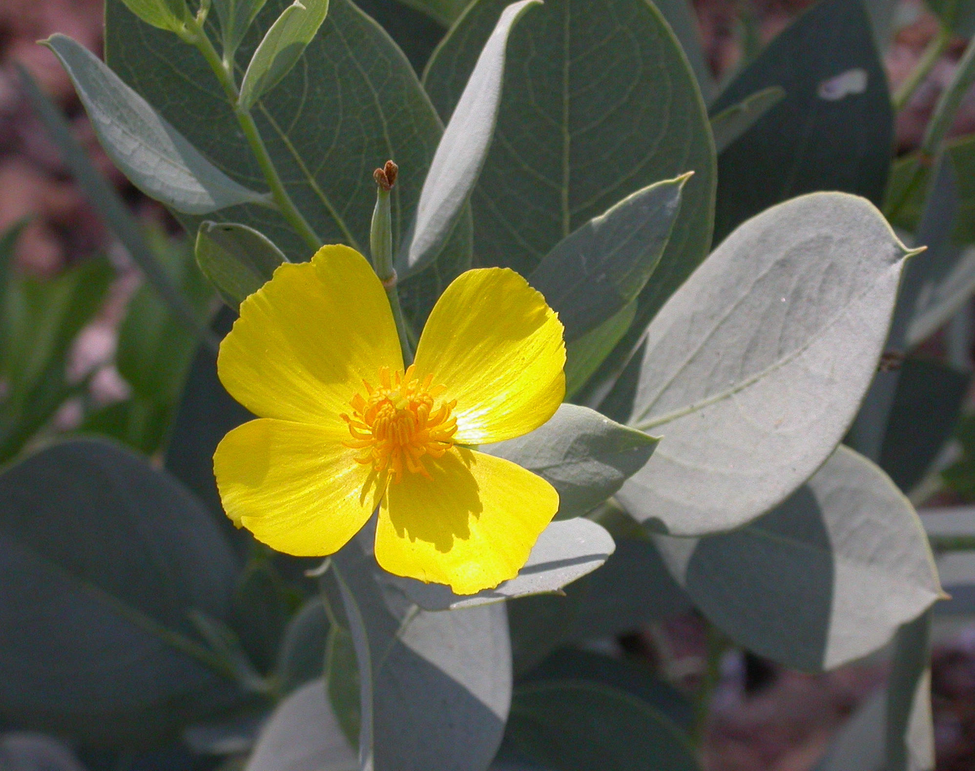 Dendromecon harfordii Channel Island Tree Poppy, cultivated in BioTrek at California State Polytechnic University, Pomona (Cal Poly Pomona), southern California. Photographed at BioTrek.